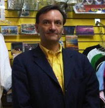 Pianist Stephen Hough at Cleveland's Big Fun gift shop in 2010